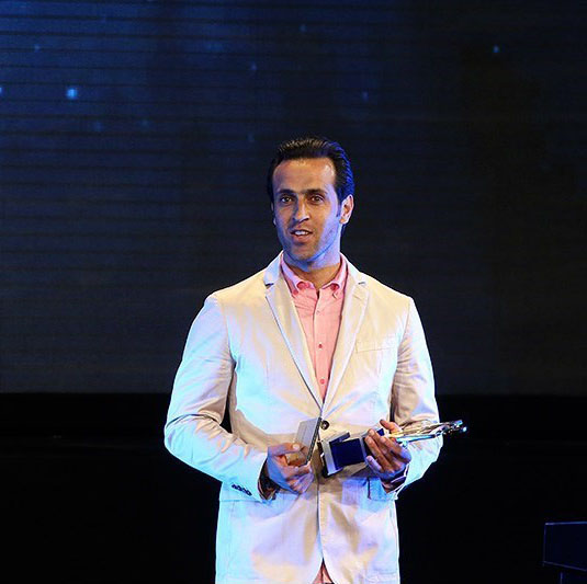 Ali Karimi received a gift in Iran Premier League Annual Awards Ceremony in Milad Tower.